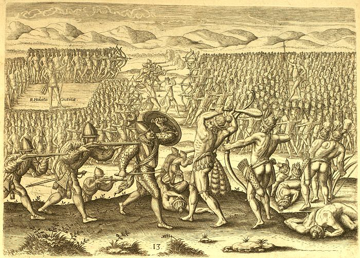 Outina defeats Patanou with the help of the French. The French are on the front lines with their superior weapons. (The engraving probably reflects more of a European practice of warfare than what was practiced by Native Americans.) Plate XIII.